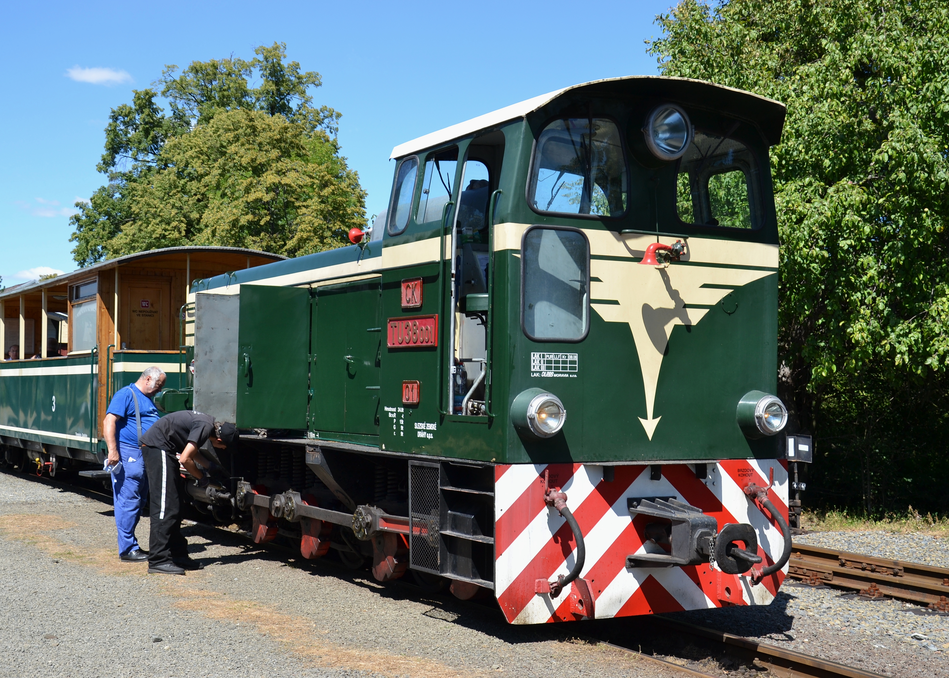 ČSD Class TU 38.0 in Osoblaha (Hotzenplotz)